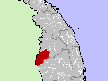 Sa Thay District, Kon Tum Province, Vietnam.